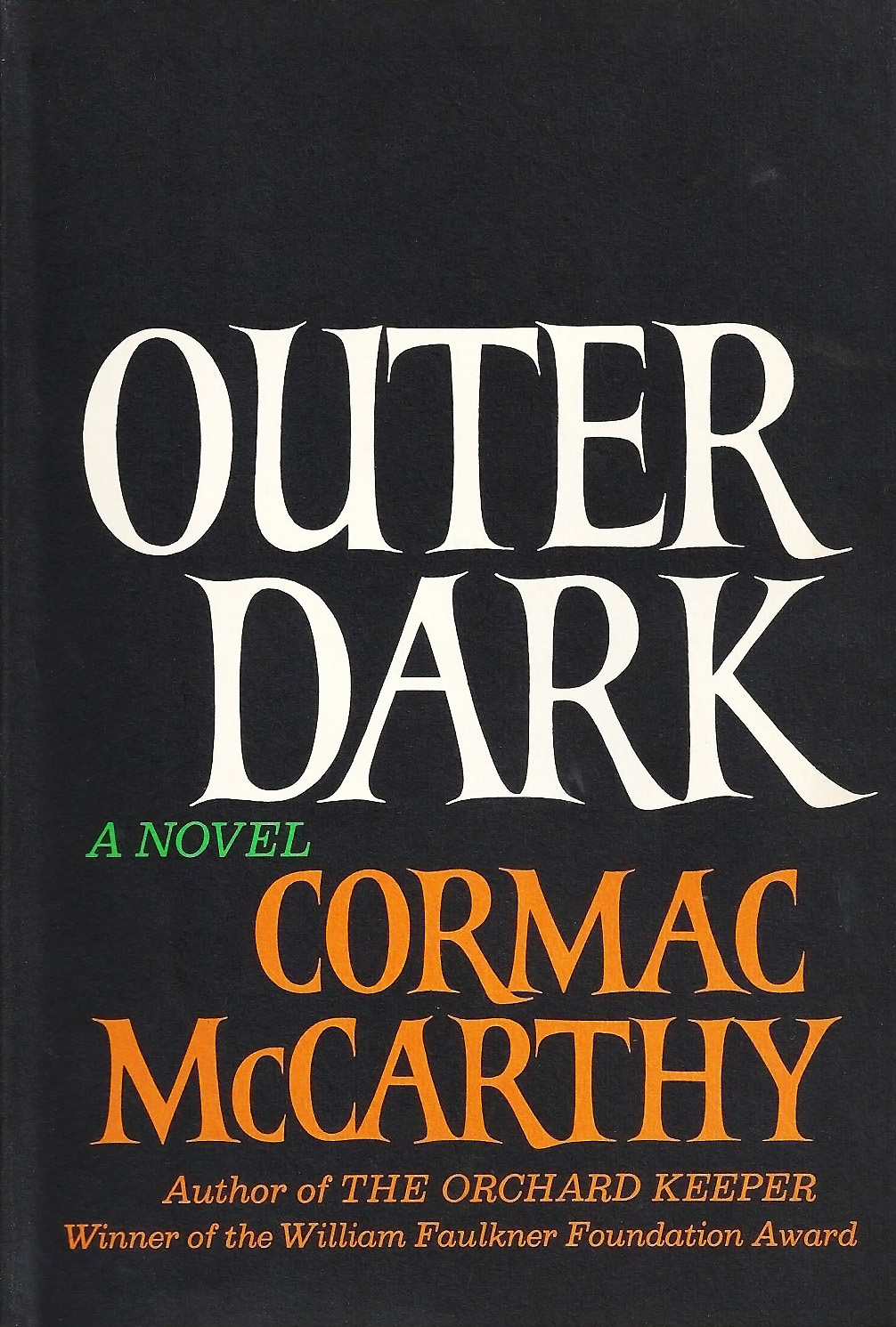 Cover of Outer Dark, the second novel by American author Cormac McCarthy.